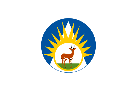 State flag of Northern Bahr el Ghazal in South Sudan and formerly Sudan.